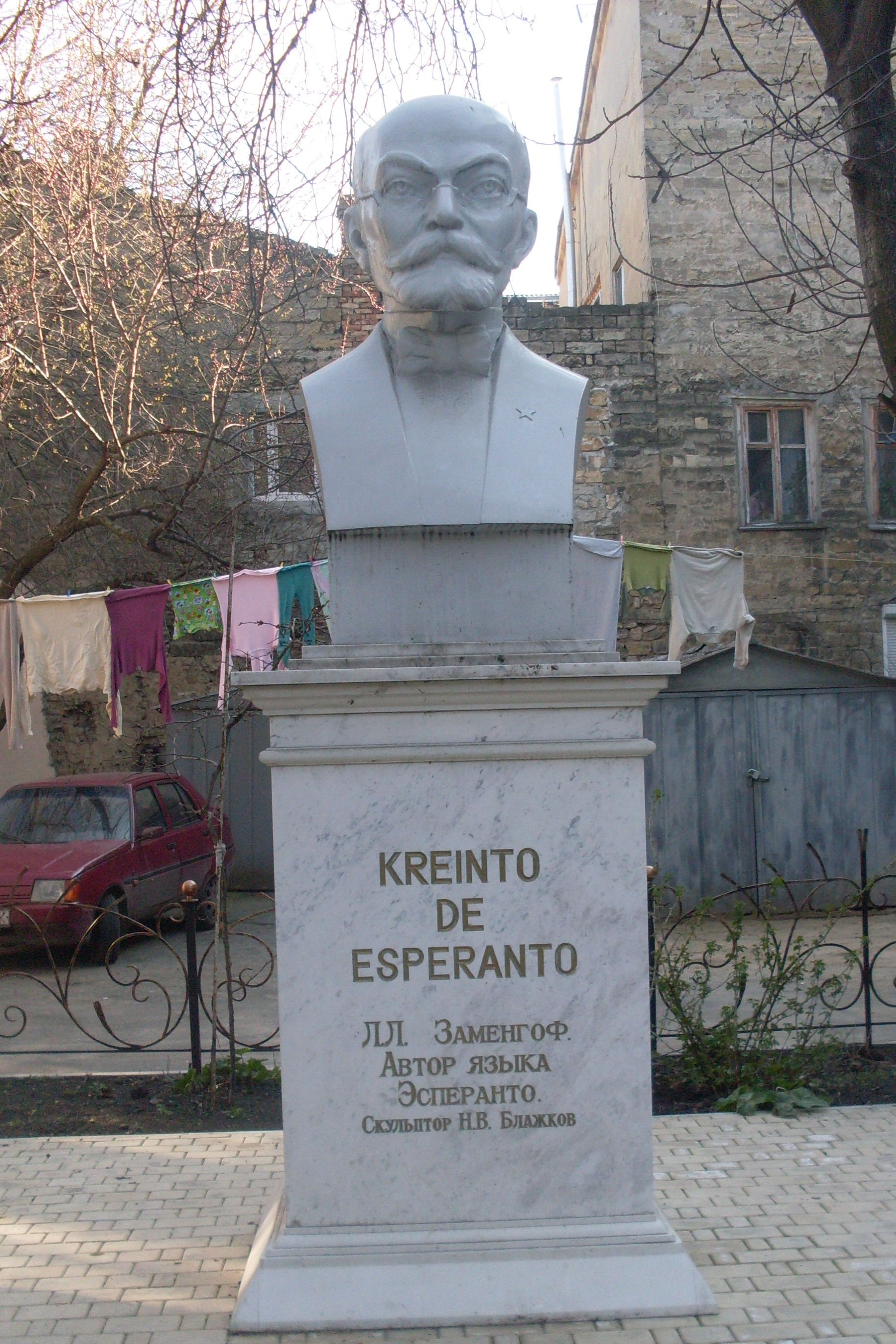 Statue of Lazar L. Zamenhof, inventor of Esperanto Location: Odessa, Ukraine